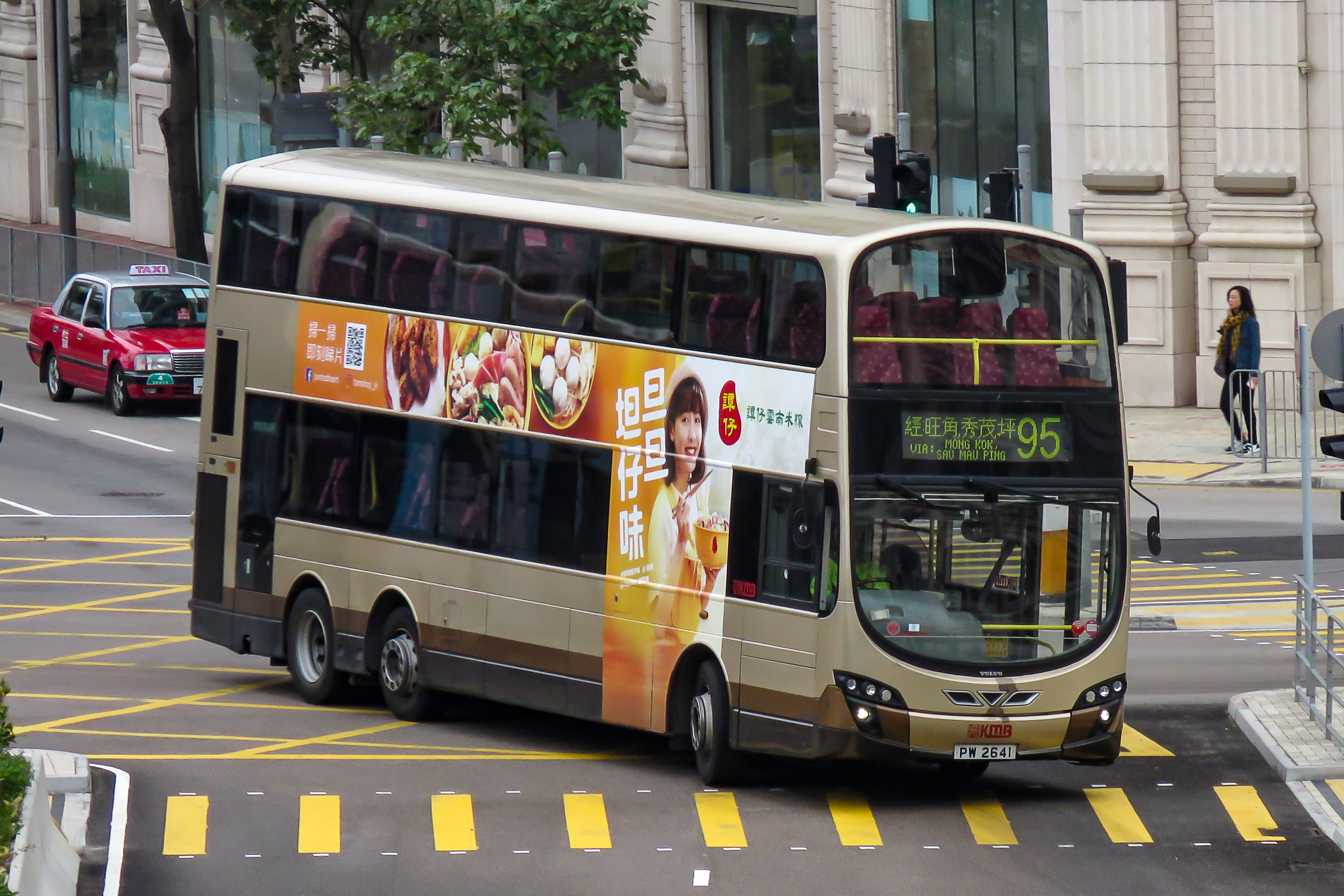 Seen with Tam Chai Yunnan Rice Noodles banner, with the slogan "旦旦坦仔味" (the pronunciation of "啖啖譚仔味" in Tam Chai accent (譚仔話) - non-standard Cantonese with some "southwestern" accent spoken by the crew of Tam's.